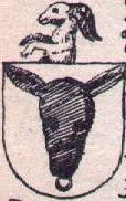 Coat of arms Półkozic from Herby polskie... by Antoni Swach